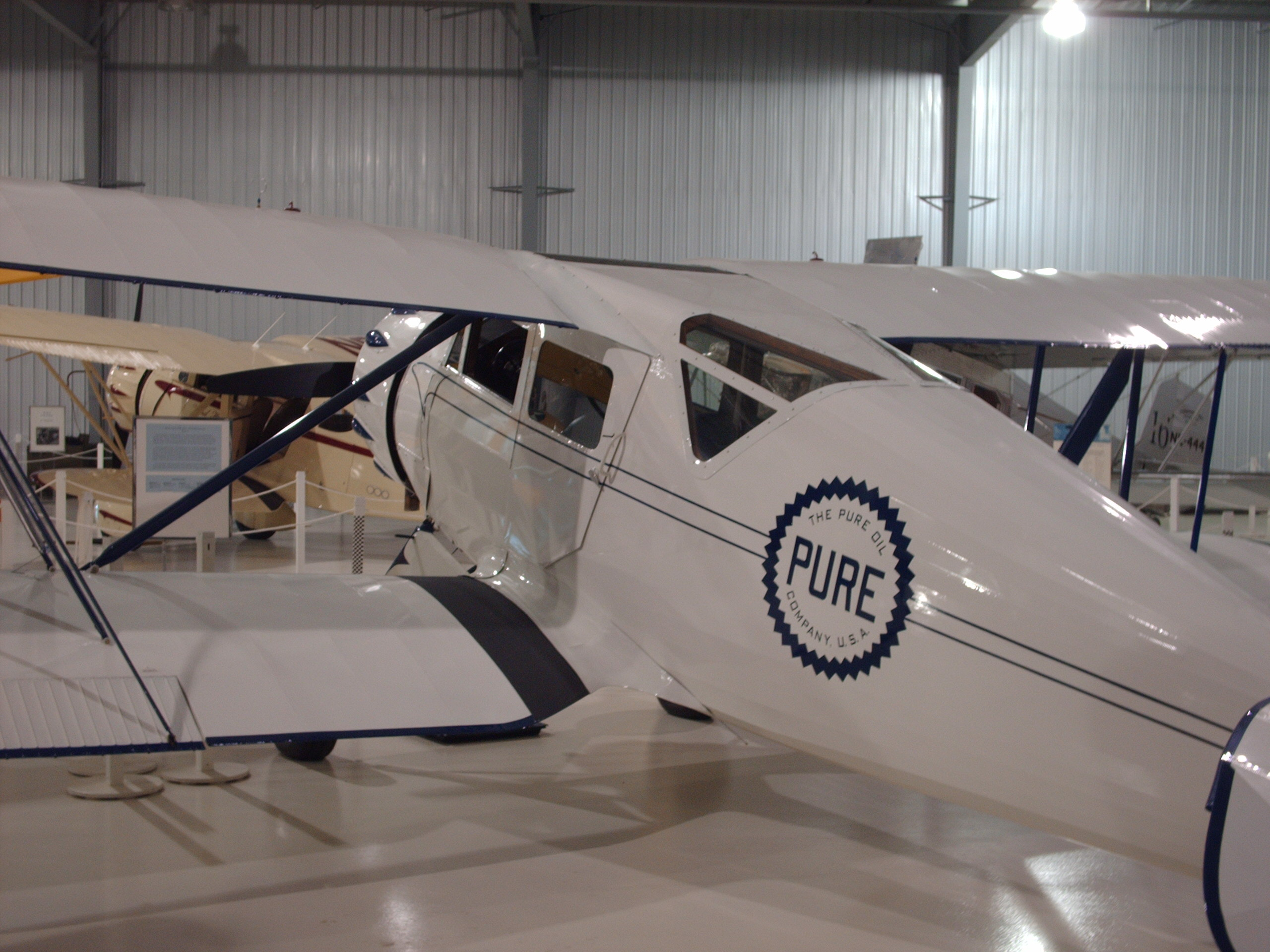 1934 Waco UKC mid C series Standard Cabin biplane (NC13897) in the Herrick Collection in Anoka, Minnesota, showing the streamlined rear windows used on mid production examples, before being covered over on the final standard cabins.